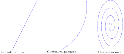 Diferentes curvaturas.